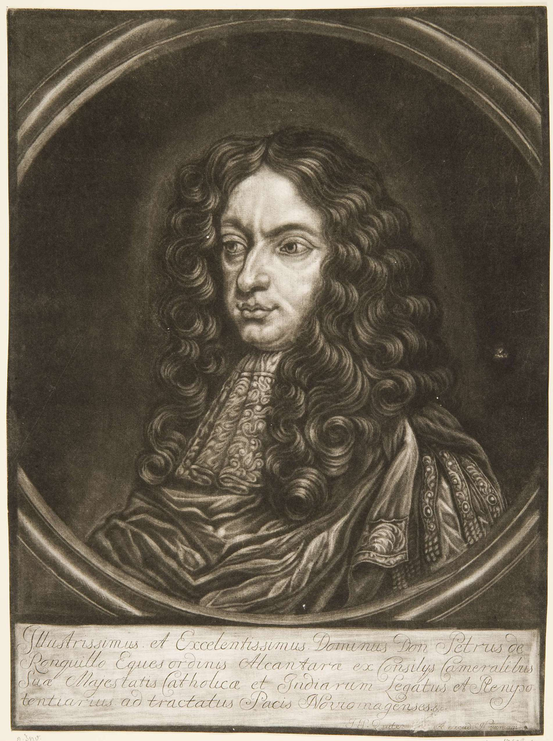 Retrato de Pedro Ronquillo, grabado de Herman Hendrik de Quiter para la serie de retratos de embajadores en la Conferencia de Paz de Nimega ("Gesandte der Friedenskonferenz zu Nijmegen), 1678-1679. Braunschweig, Herzog Anton Ulrich-Museum, Inventar-Nr. HHQuiter AB 3.30